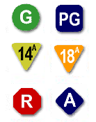 Ratings used by the following film boards